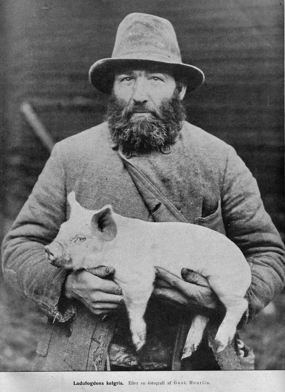 Photo of a swedish pigfarmer by Gustav Heurlin. From the cover of Allers Familj-journal #18 1909.